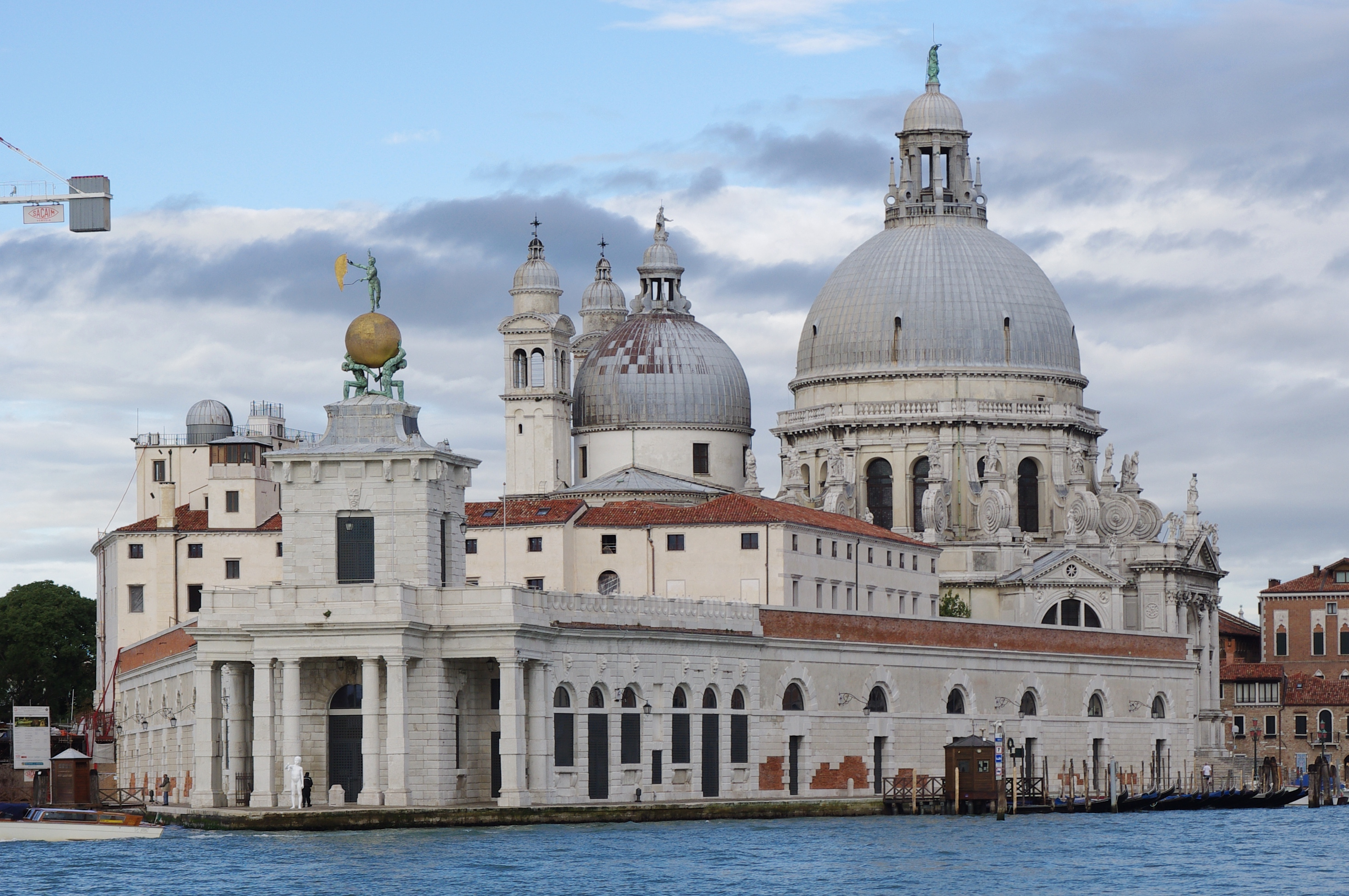 The Basilica of St Mary of Health in Venice